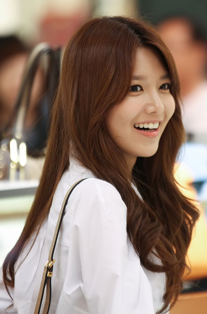 Choi Soo-young at a fansigning for Double M on September 8, 2013.